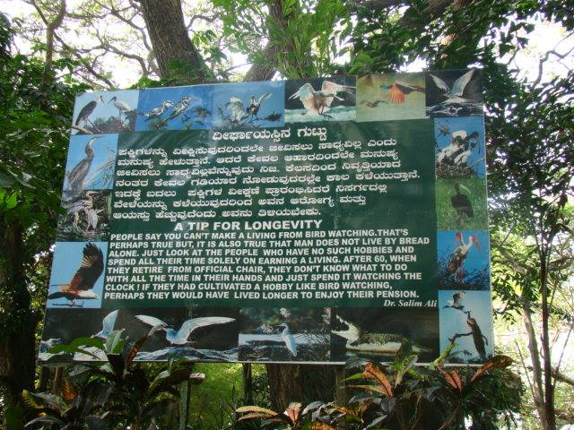 Salim Ali quote at Ranganathittu Bird Sanctuary